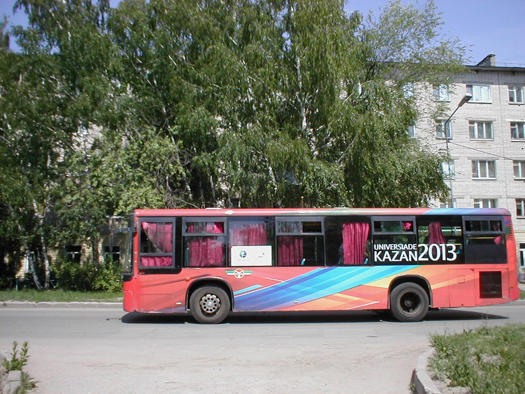 Logo of 2013 Universiade on bus in Kazan